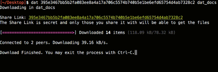 A command-line session showing repository creation and remote synchronization